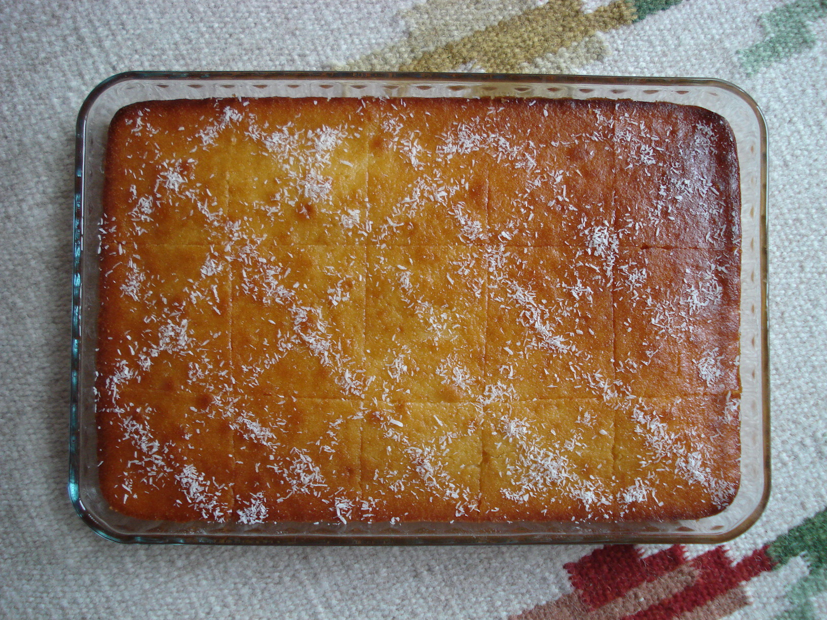 Revani, a kind of dessert from Turkish cuisine